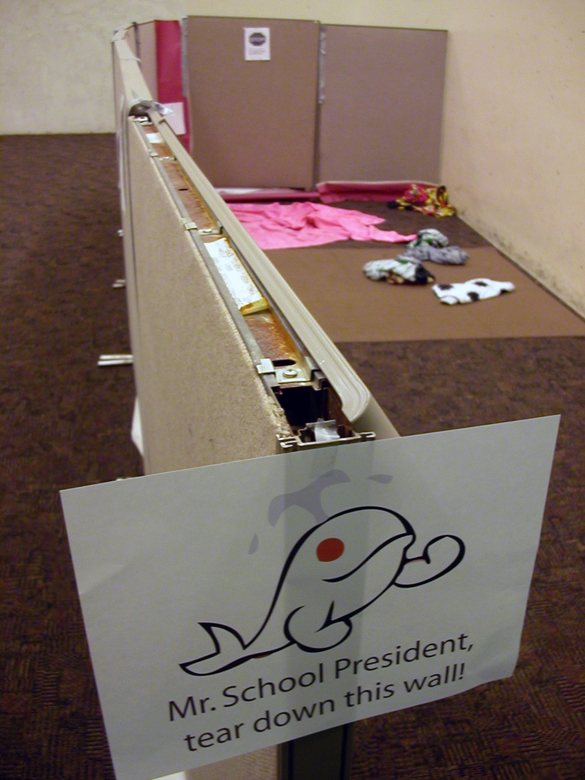 A Reddit user-created logo of Mr. Splashy Pants at Normandale Community College in Bloomington, Minnesota the same day as a front page story appeared on Reddit stating that the college had erected a wall at the request of Muslim students to separate men from women in the college's meditation room. The image was placed there after the Reddit community protested the wall on their forums.